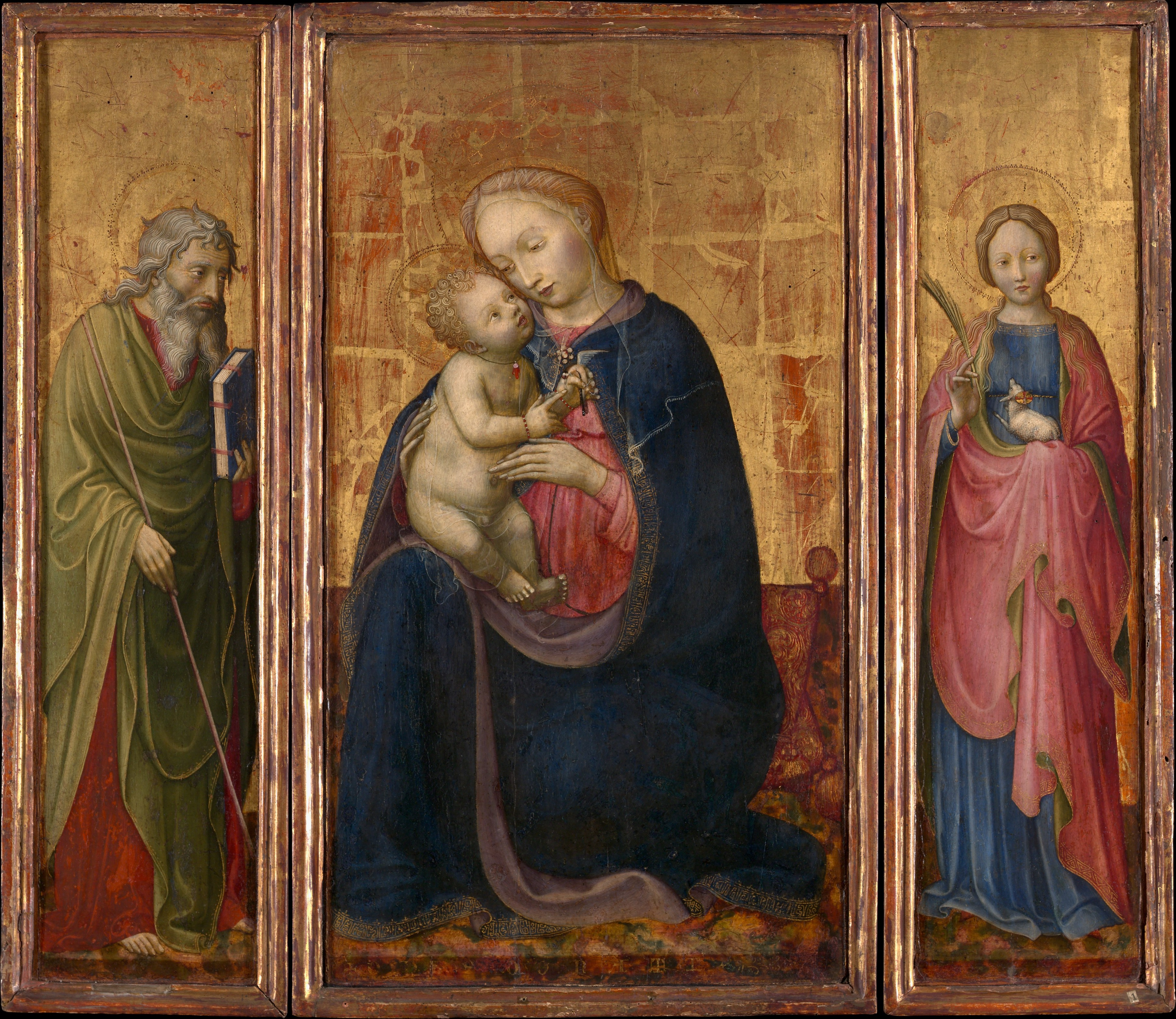 Painting, triptych; Paintings